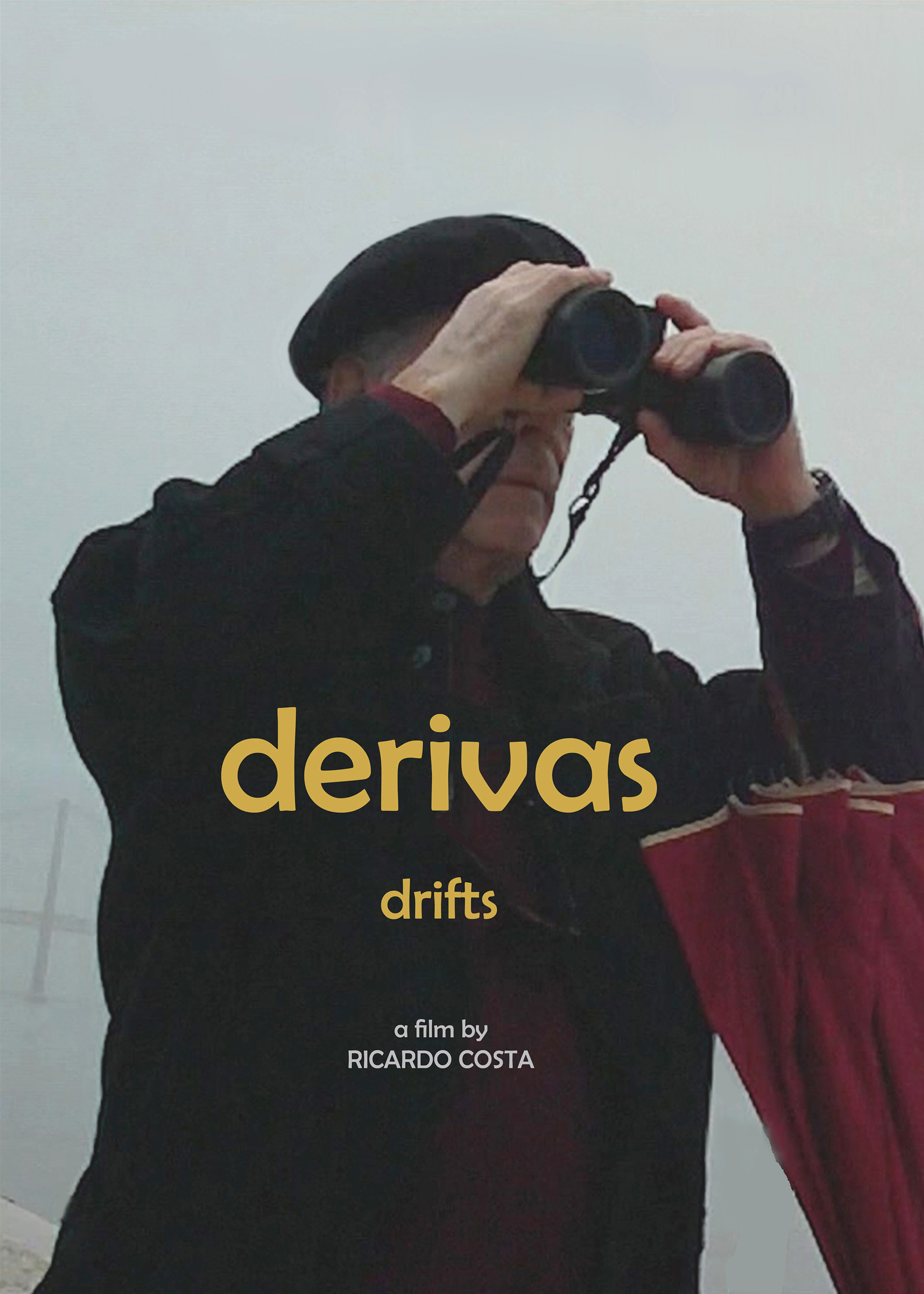 Poster of the film Drifts